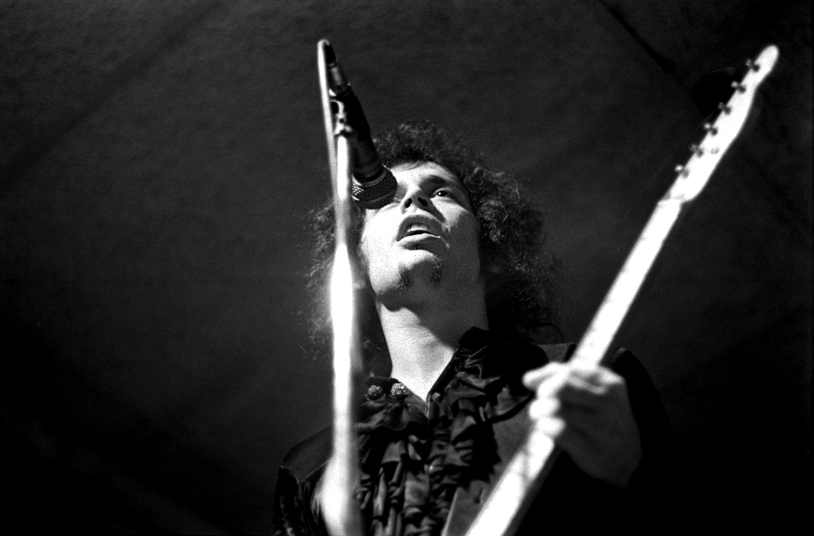 Wayne Kramer performing on guitar in February 1974